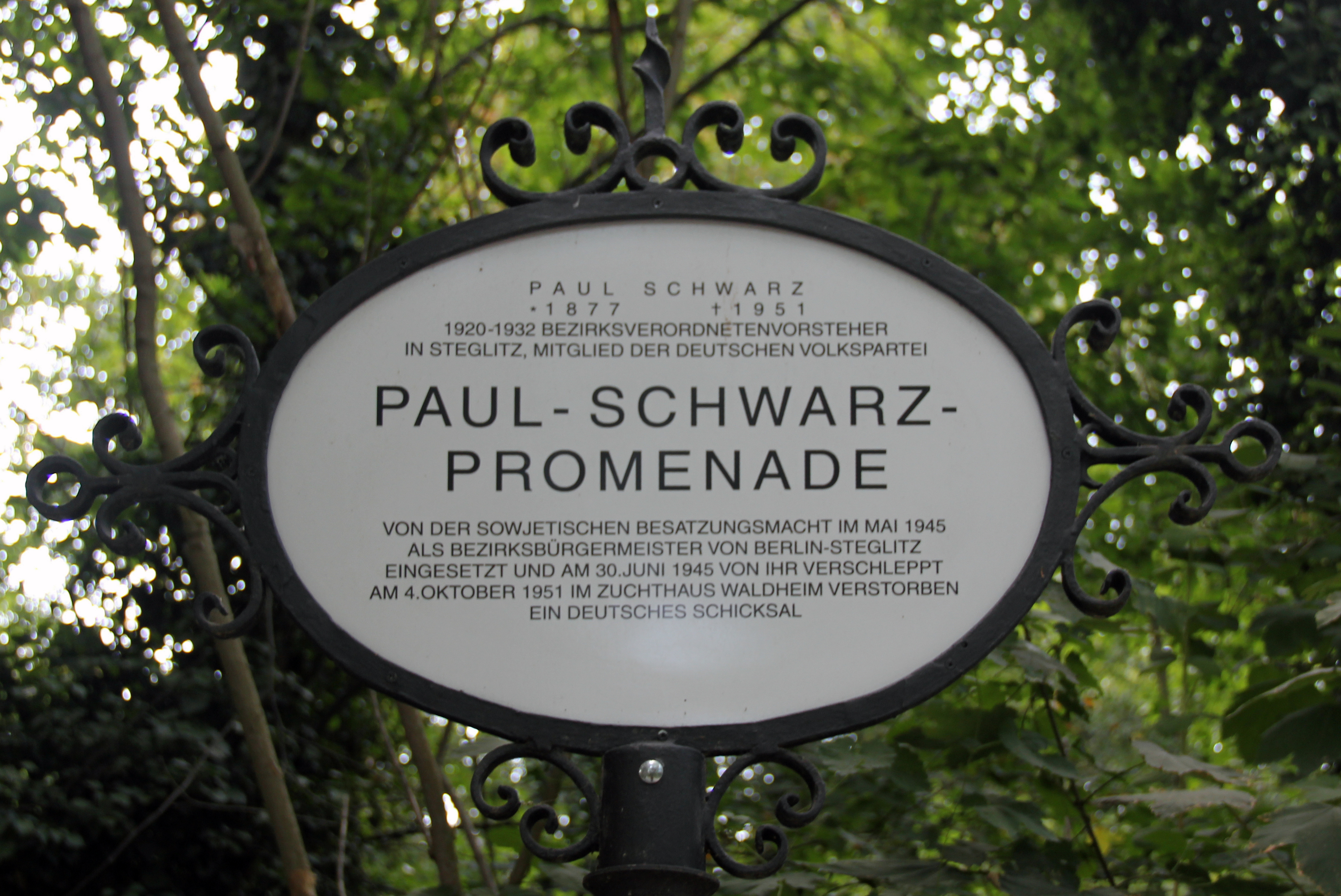 Memorial plaque, Paul Schwarz, Paul-Schwarz-Promenade, Berlin-Lichterfelde, Deutschland